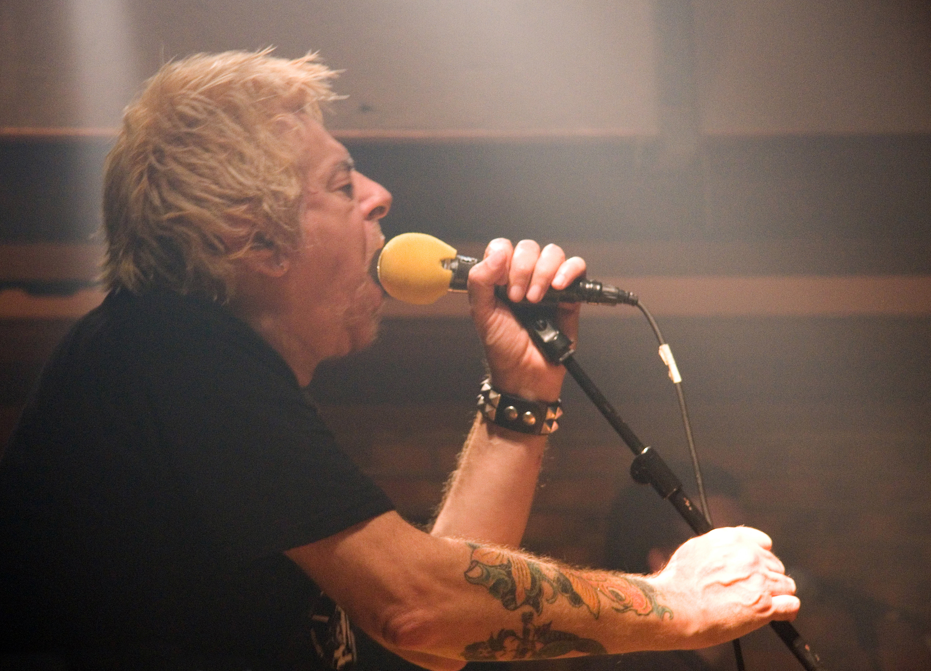 Charlie Harper, singer of the punk band UK Subs.